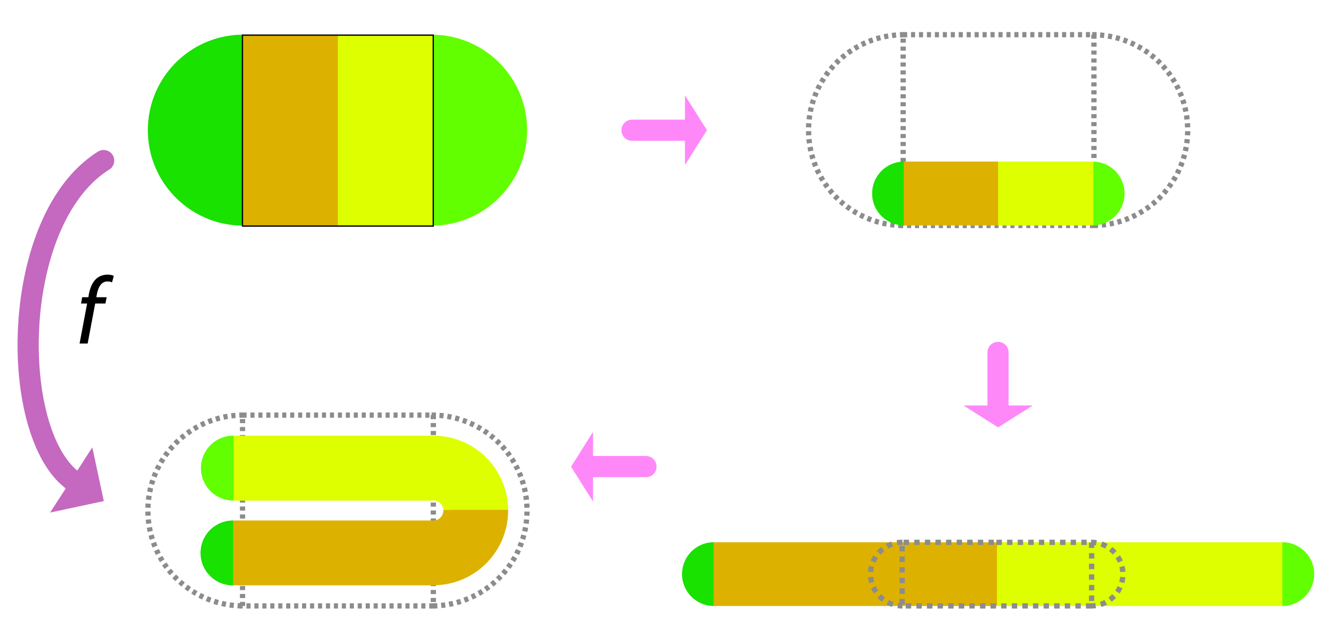 Visualisation of the Smale-Horseshoe Map